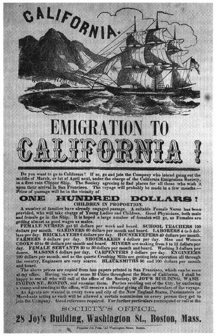 A flyer advertises for men and women to come to California during the Gold Rush